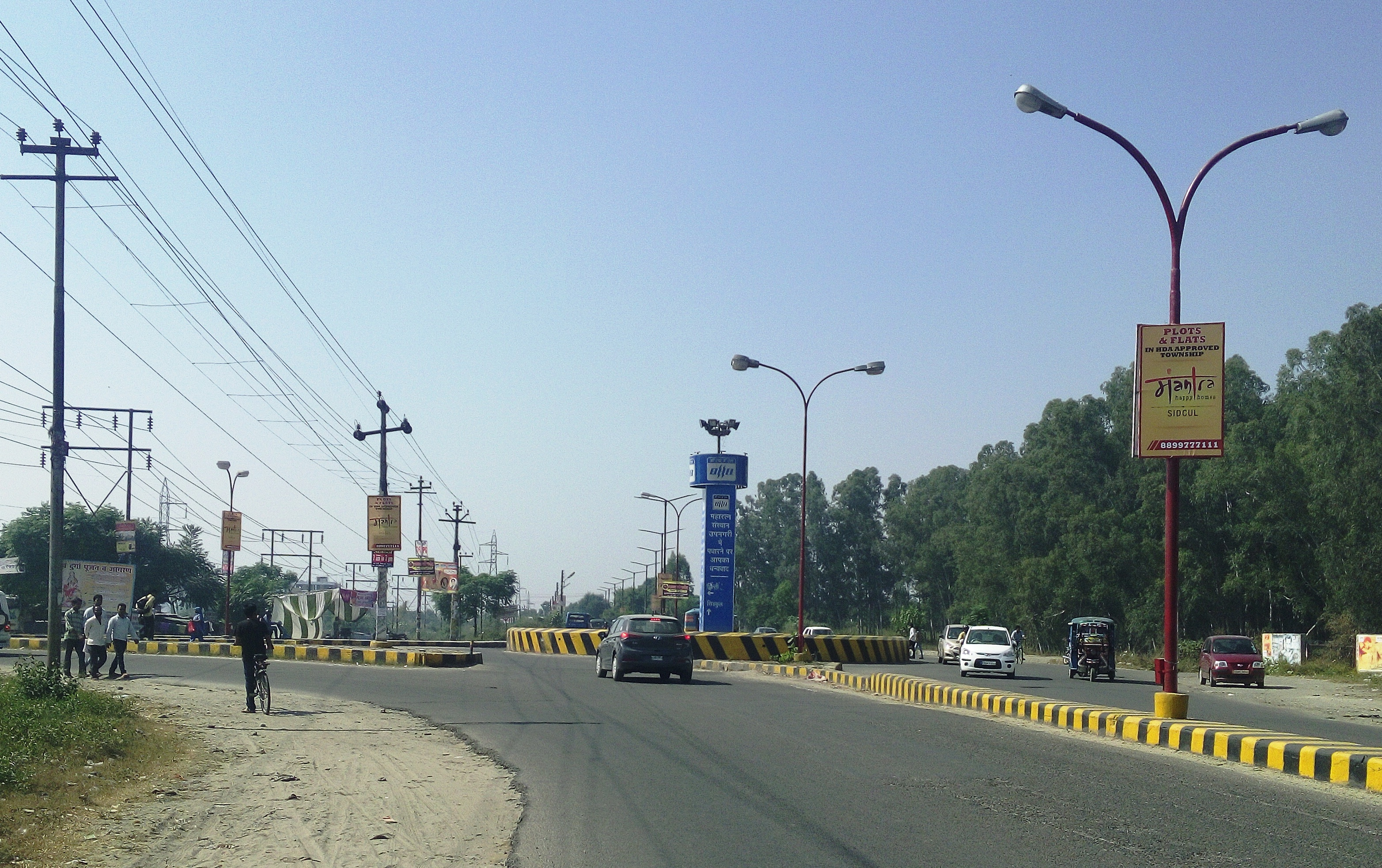 Shivalik Nagar connected with BHEL Township, Holy city Haridwar, Jawalapur and SIDCUL through Shivalik Chowk.